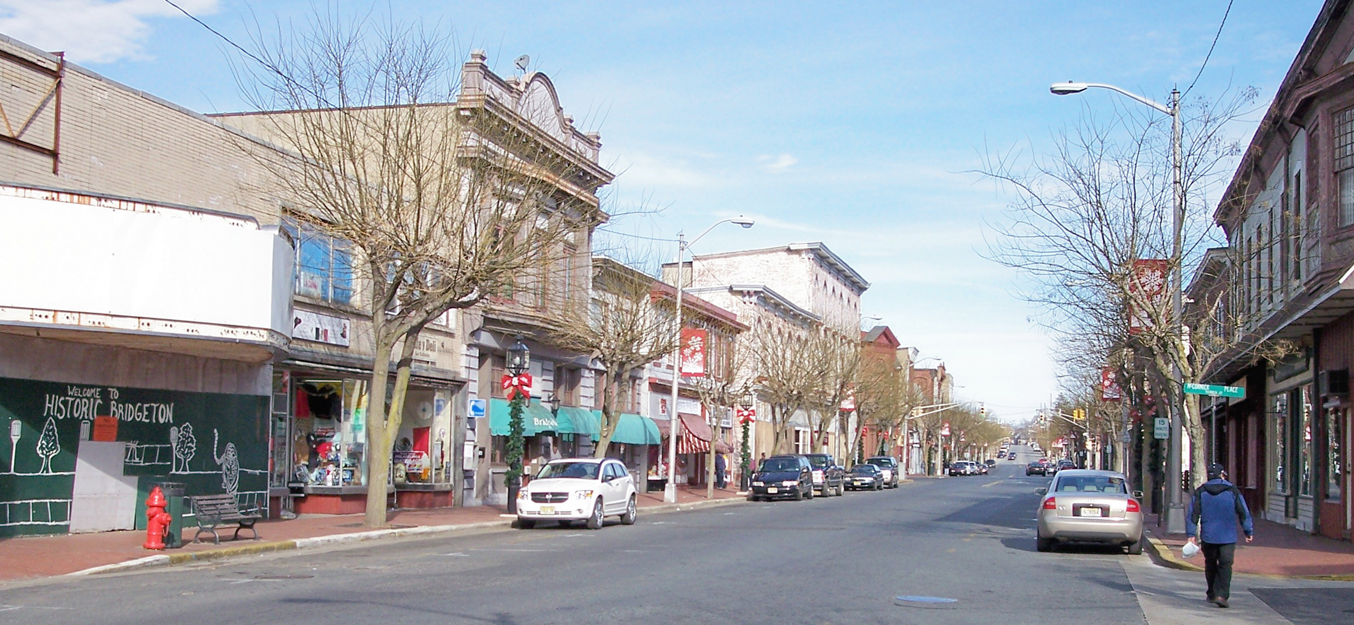 Laurel Street in downtown Bridgeton, New Jersey